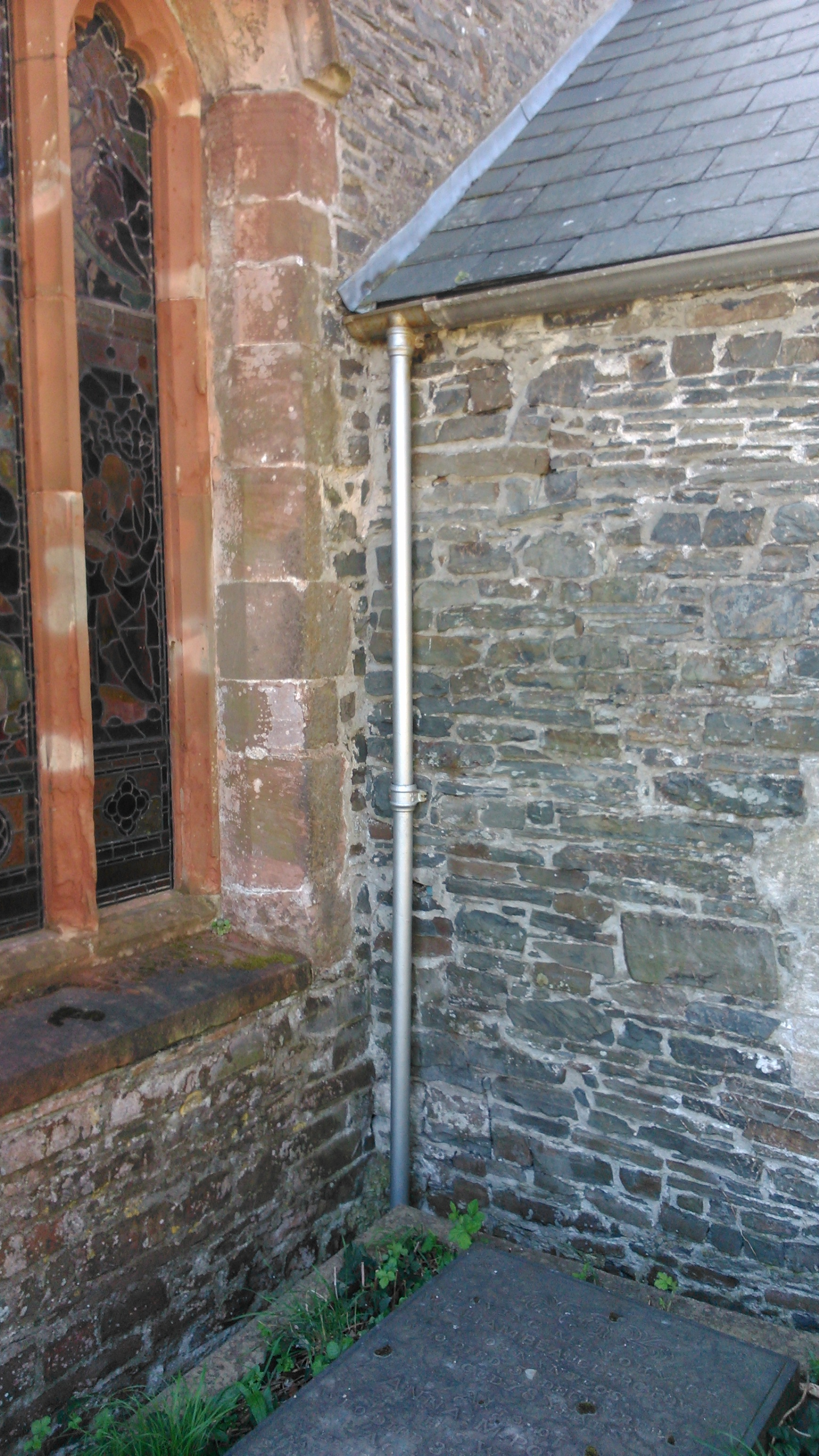 Priest's vestry, angle of wall to chancel